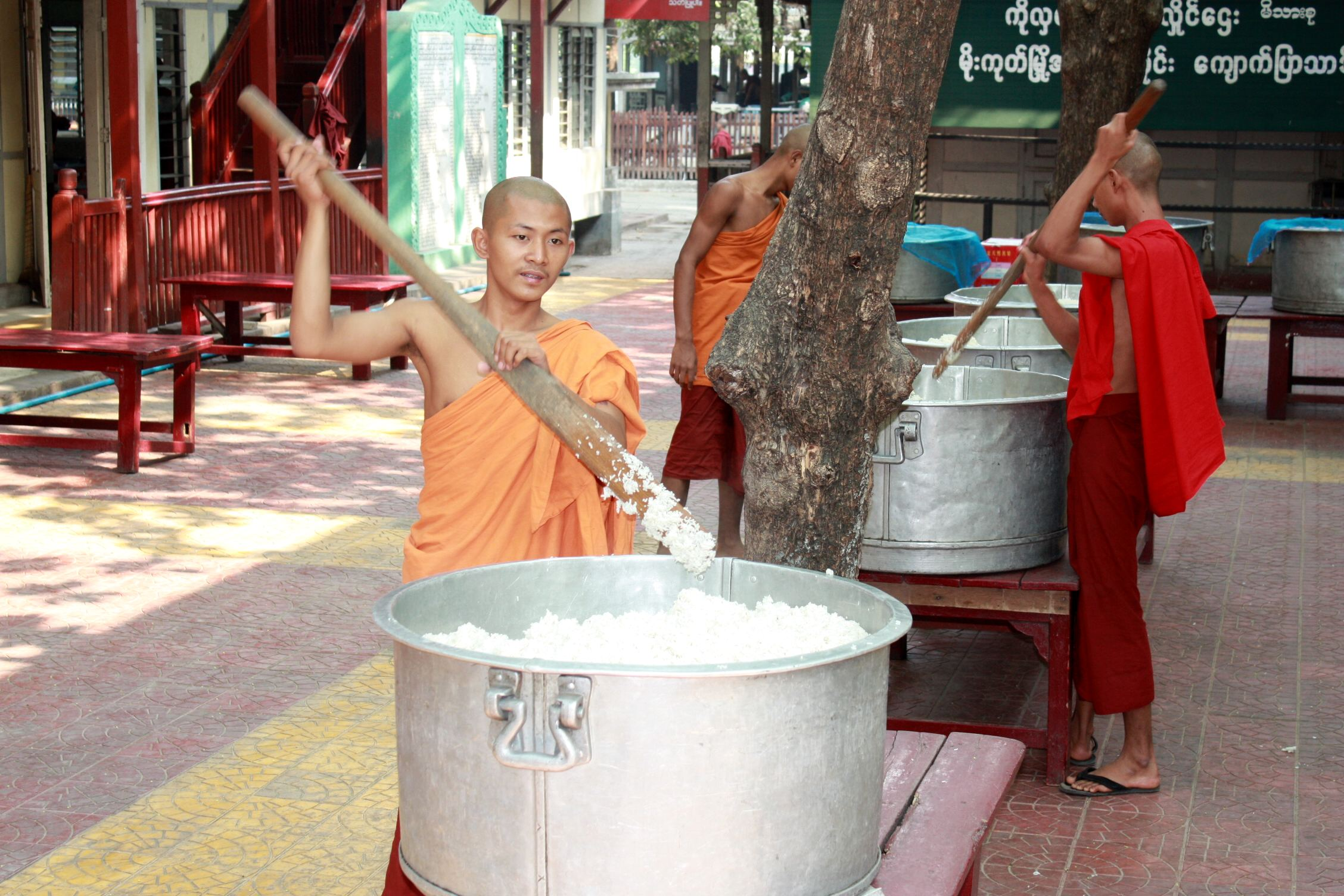 Any novice doing cooking each day, with great cauldron , the steam rice ,for all the monk community . Here 4 cauldron are necessary All Buddhists are required to keep the basic Five Precepts and novices are expected to keep the Ten Precepts Parent would expect them to stay at the monastery immersed in the teachings of the Buddha as members of the Sangha for a few weeks or longer, at least for the duration of Thingyan. They will have another opportunity to join the Sangha at the age of 20, taking the upasampada ordination, to become a fully fledged monk, keeping the 220 precepts of the full monastic rules (Patimokkha), and perhaps remain a monk for life.